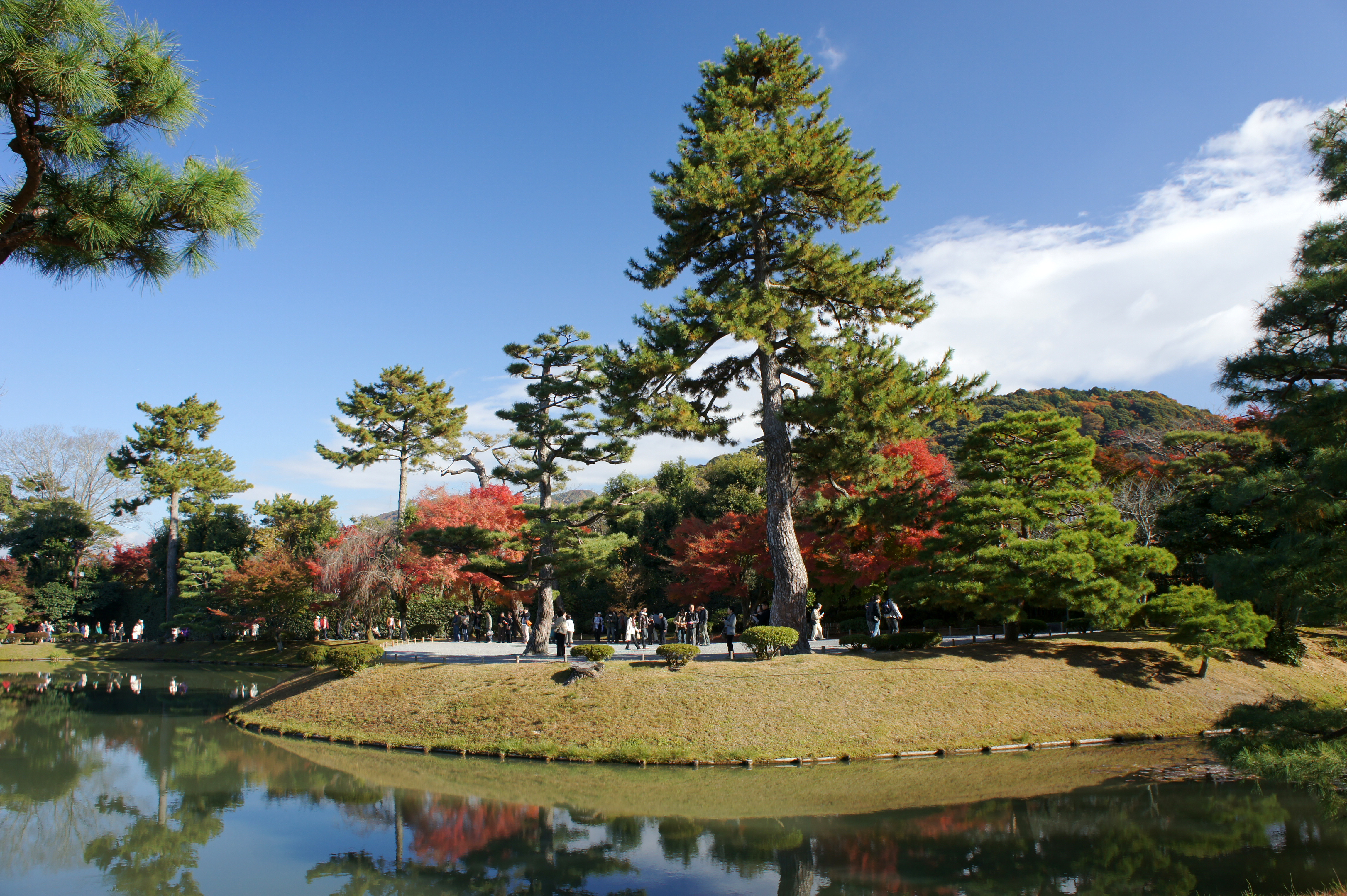 Byōdō-in in Uji, Kyoto prefecture, Japan It was registered as part of the UNESCO World Heritage Site "Historic monuments of ancient Kyoto".